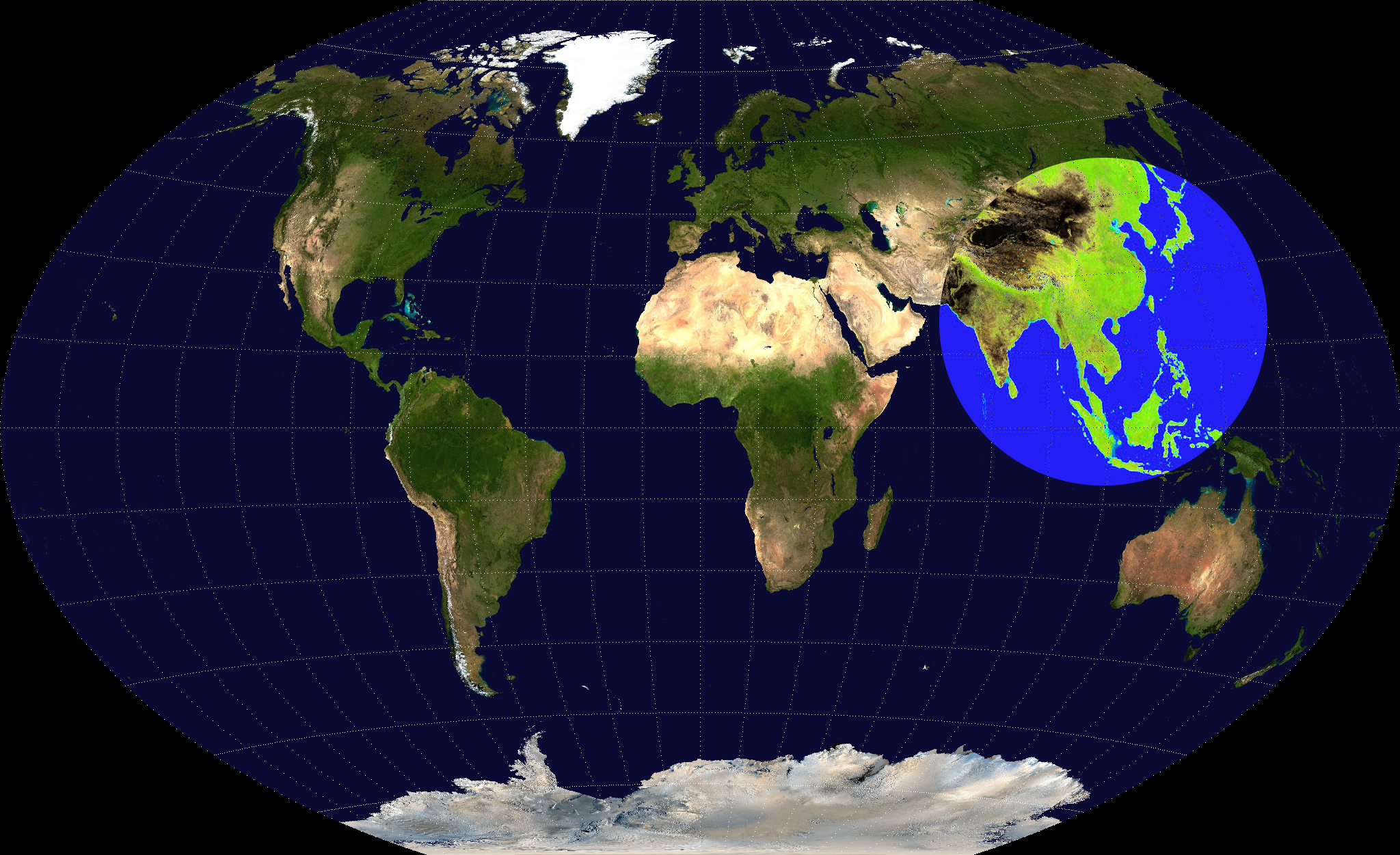 A circle drawn so that more than half the world's population lies within it.